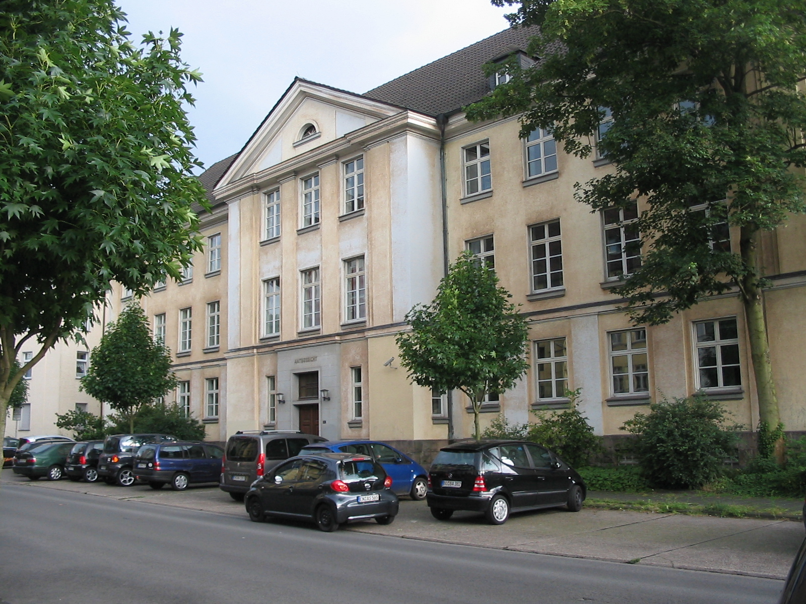 Amtsgericht Witten (Local Court), old building